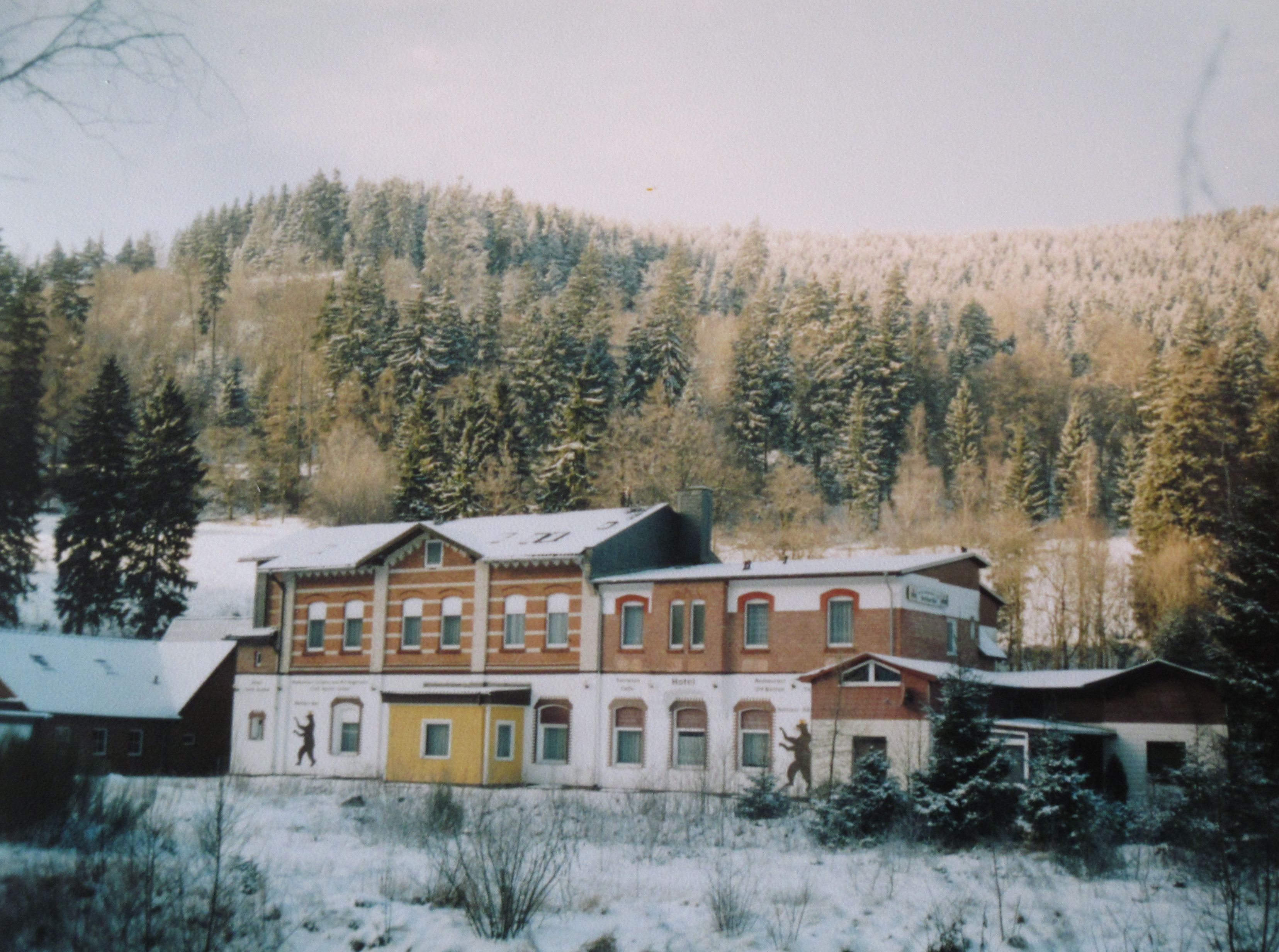 Former railway station (built in 1877), Lautenthal , Harz Mountains, Lower Saxony, Germany